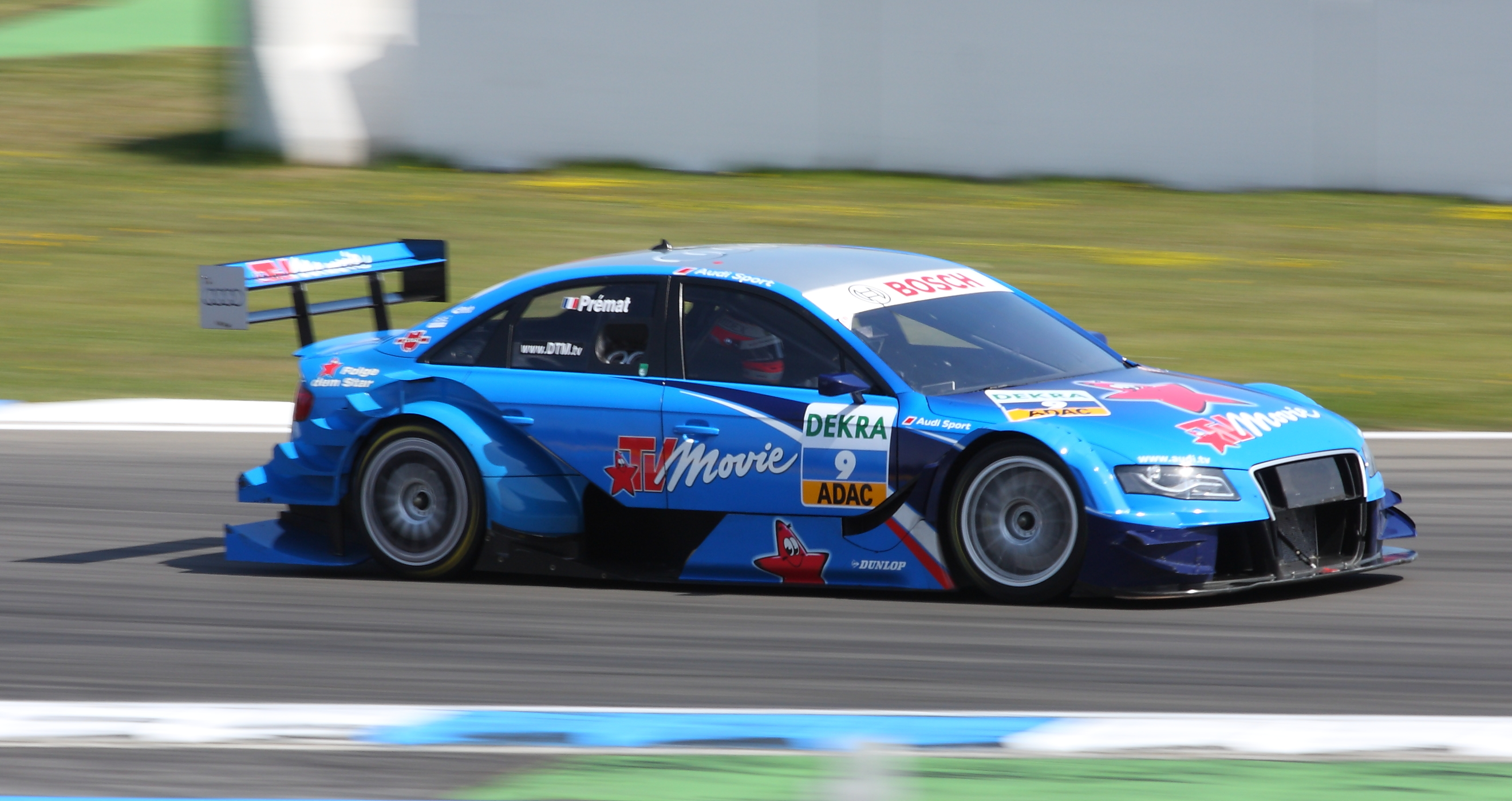 DTM Audi A4, Alexandre Prémat (driver)